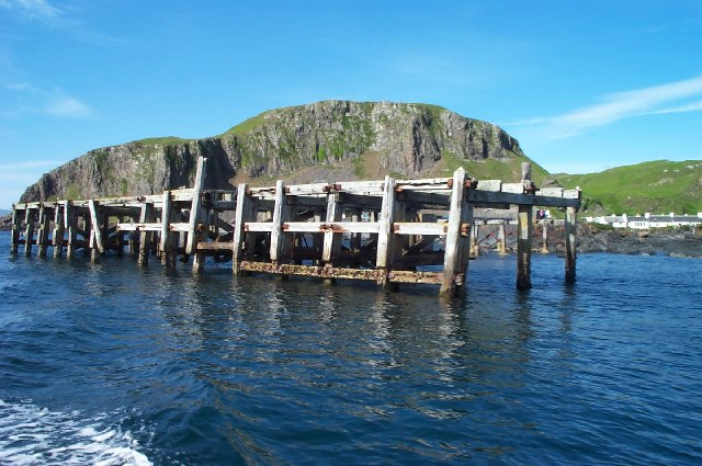 The decaying pier of Easdale Quarry. This was used to load the slate from the nearby slate mines.